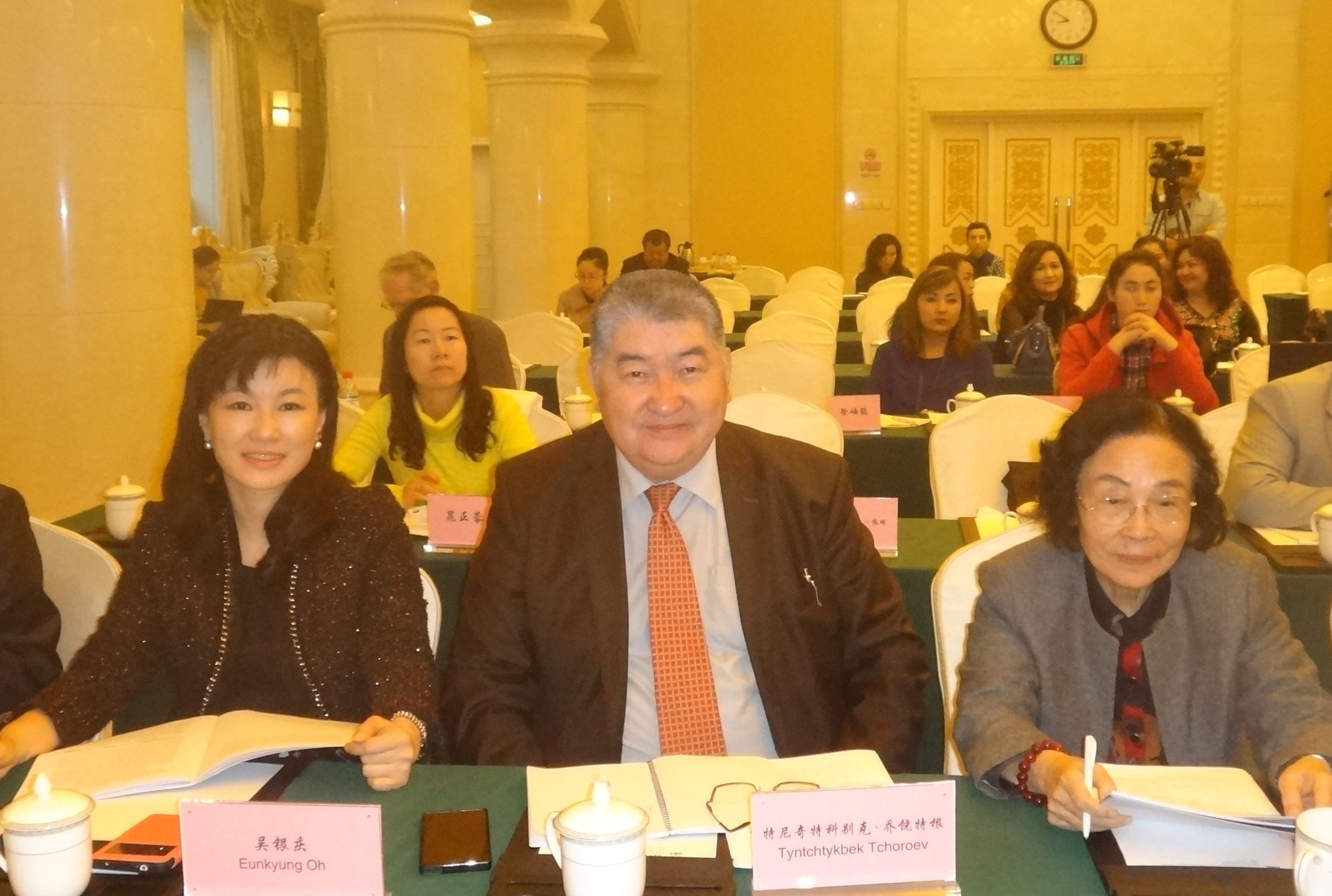 Professors Lang Ying (right), Tynchtykbek Chorotegin and Eunkyung Oh during an international conference on the Uighur dastans in Beijing, China. 20.10.2015.